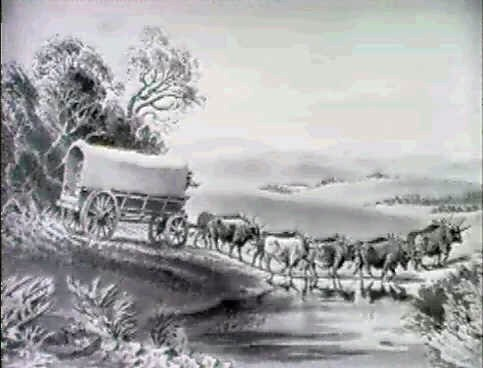 Pen and Ink Drawing by Charles Davidson Bell "A CAPE WAGON CROSSING A RIVER" (1813-1882) 17.4 x 29.5 cm. Author long deceased